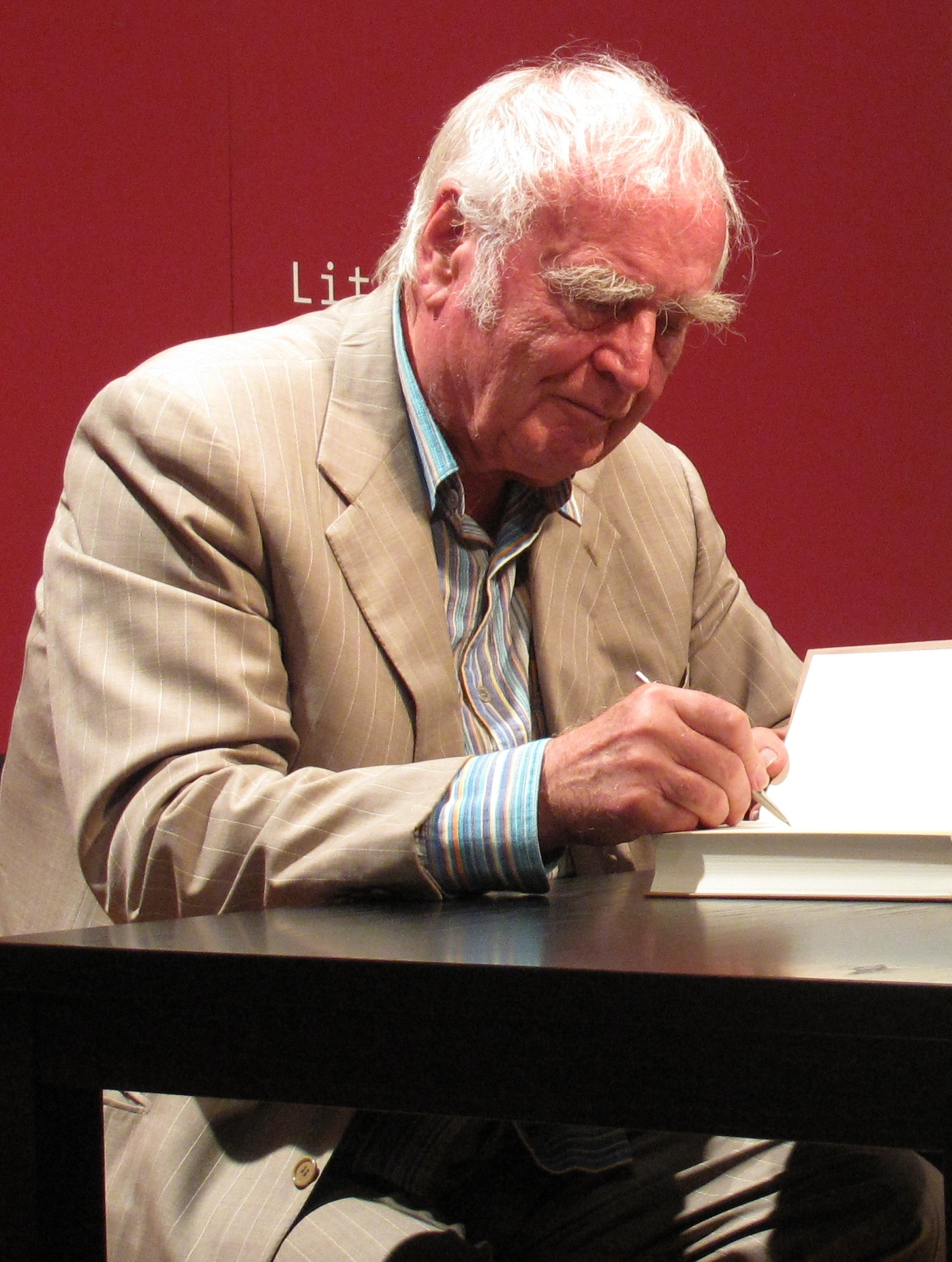 Martin Walser, Munich 2011